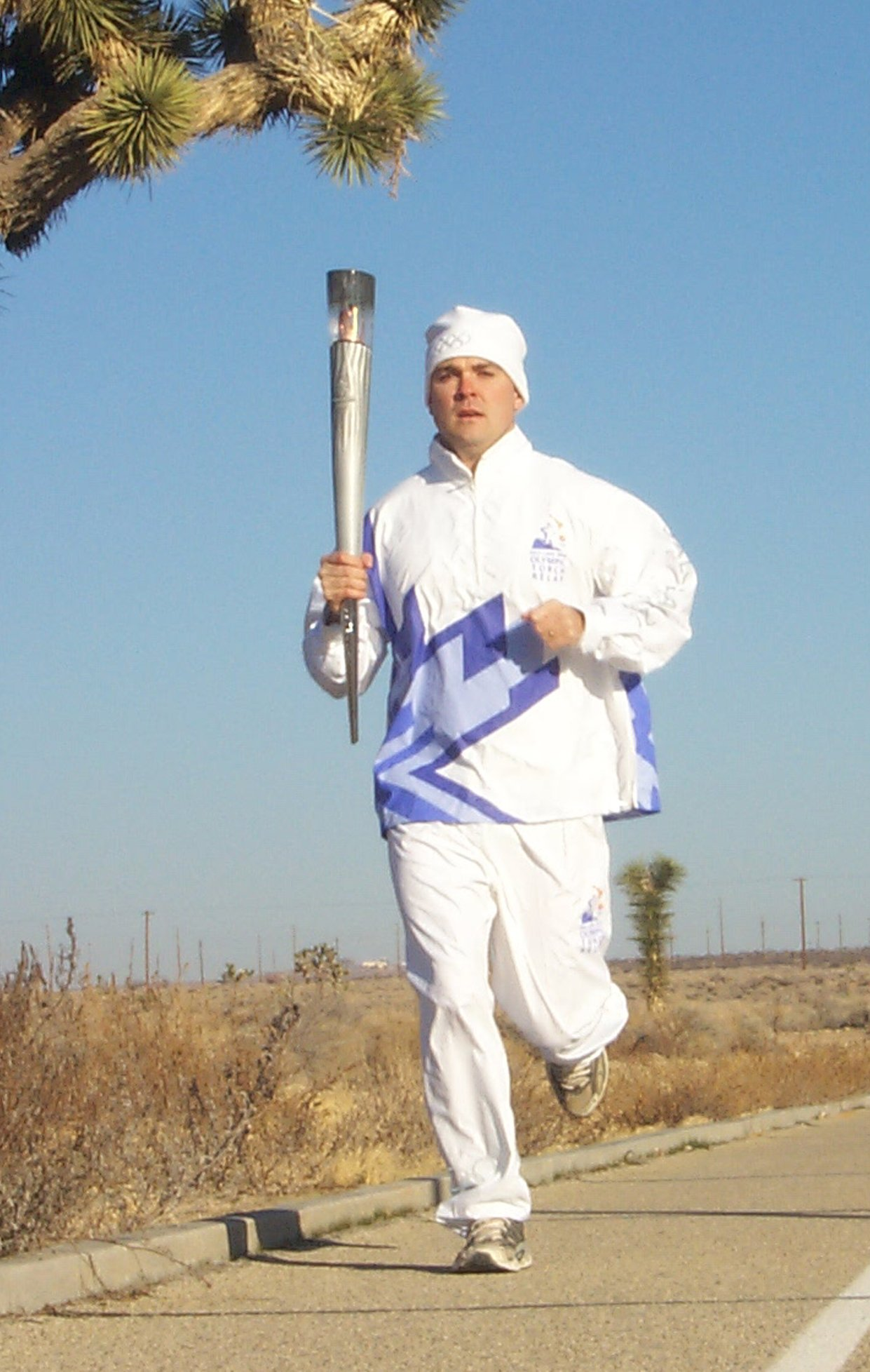 Capt. John Nowak, 95th Services Division deputy director, displays his Olympic uniform and torch.